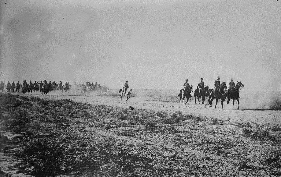 Indian Cavalry on the move along the Tigris River, c. 1915 - 1916.